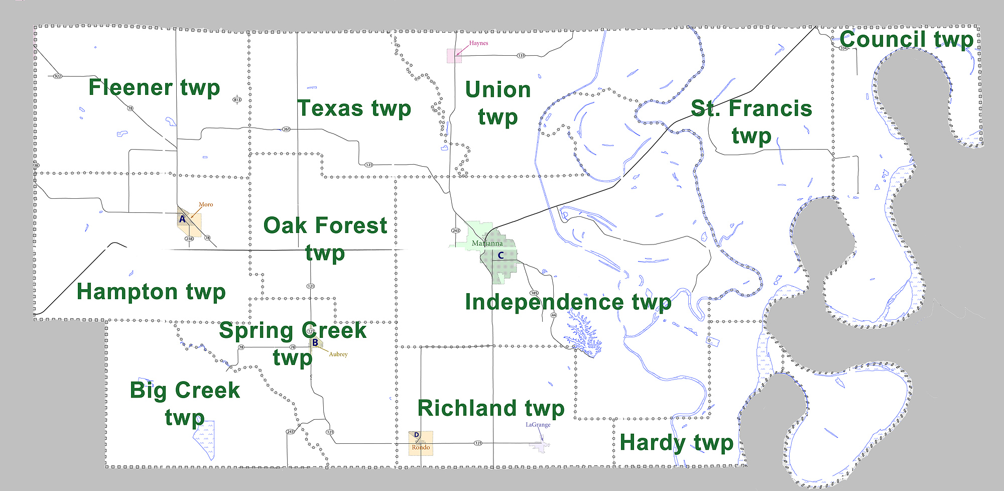 Large map showing townships in Lee County, Arkansas. Modified from US census map (for 2010 census) for Lee County, Arkansas